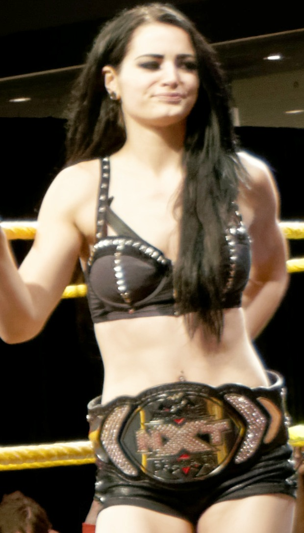 Paige posing in the ring with her NXT Women's Championship during the 2014 WrestleMania axxess.